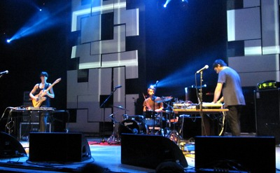 Factory Floor, indoor stage, Summer Sundae festival, Leicester